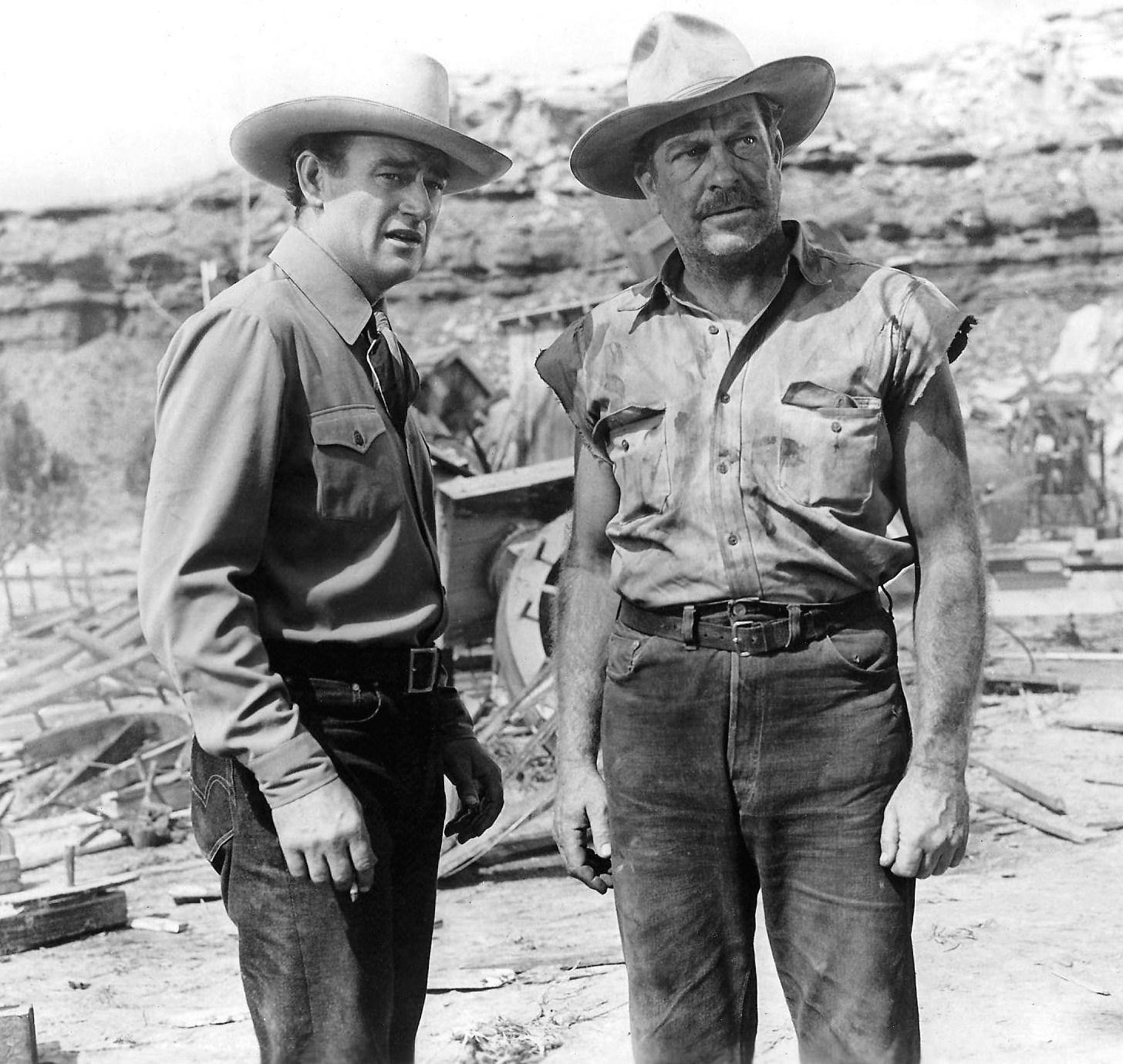 John Wayne & Grant Withers in In Old Oklahoma aka War of the Wildcats - publicity still (original image cropped : see source)